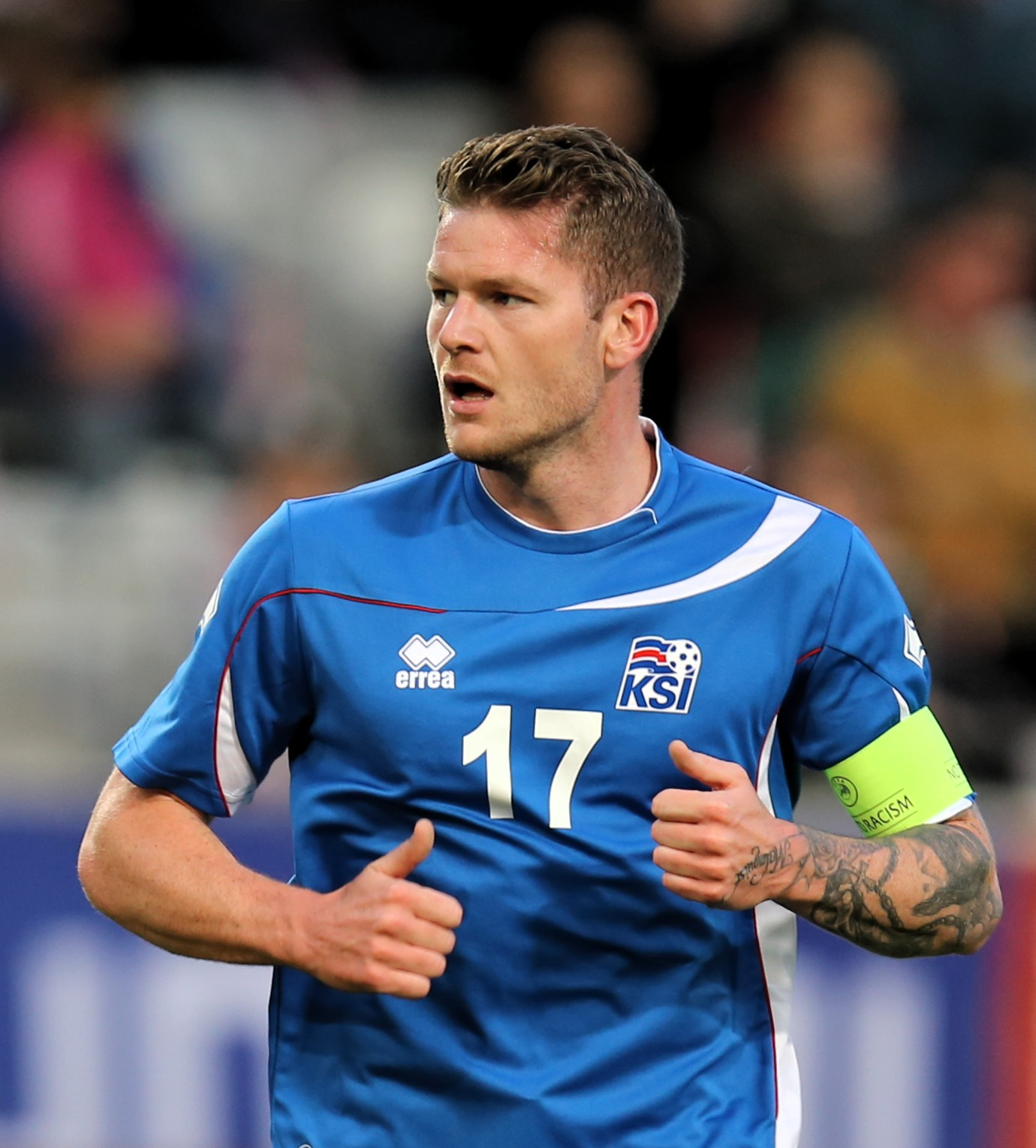 Austria - Iceland football match in Innsbruck, Austria on 2014-05-30. Austria in red, Iceland in blue.